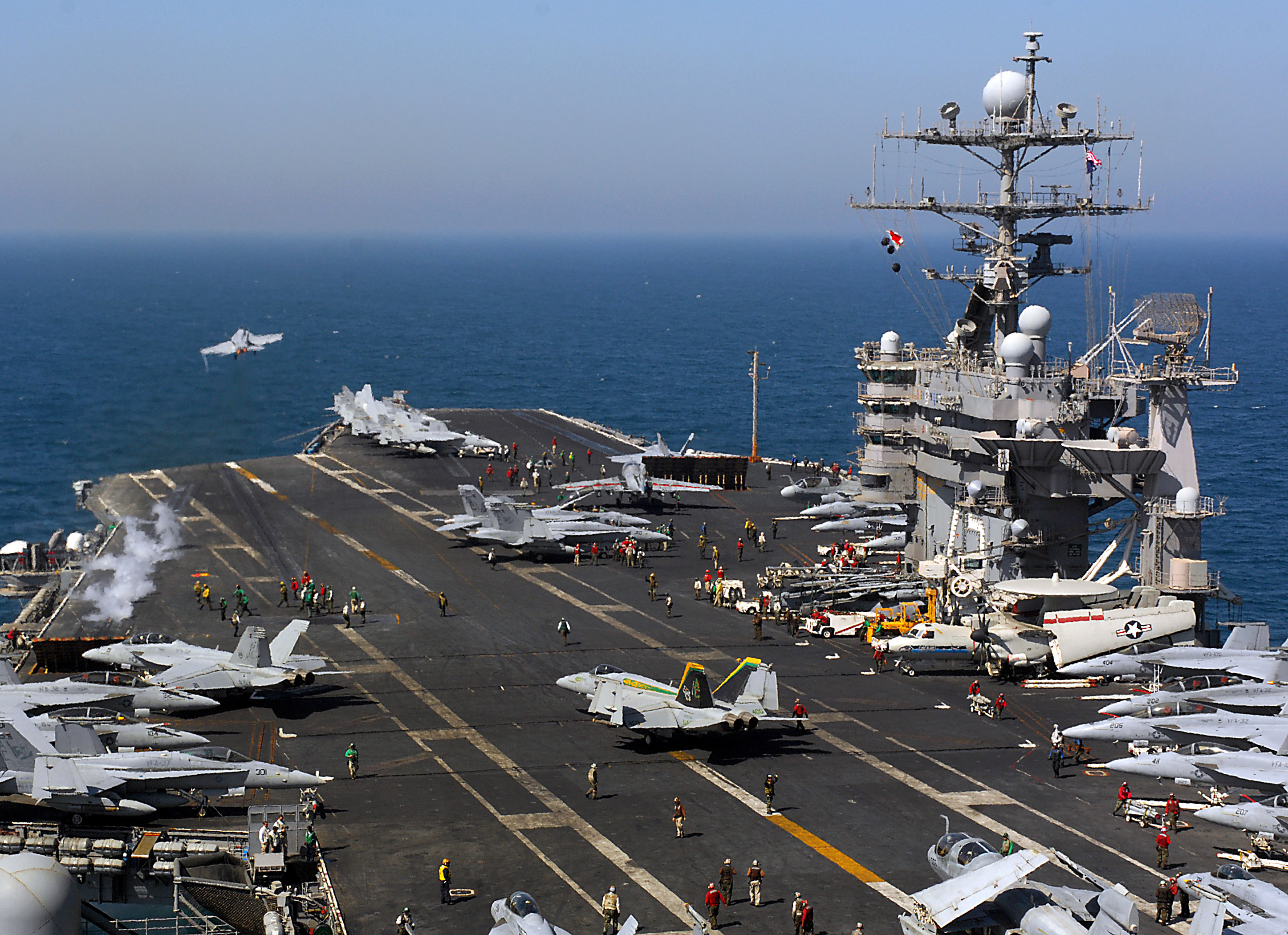 A U.S. Navy McDonnell Douglas F/A-18C Hornet launches from the flight deck of the Nimitz-class aircraft carrier USS Harry S. Truman (CVN-75) in the Persian Gulf. Truman and embarked Carrier Air Wing (CVW) 3 were under way on deployment supporting Operations Iraqi Freedom, Enduring Freedom and maritime security operations.